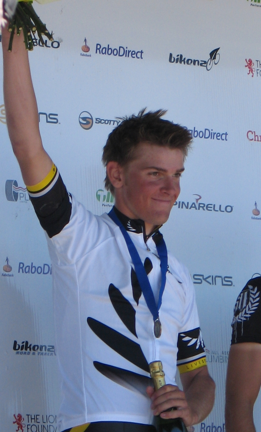 Michael Vink on the podium at the Elite National Road Championships, January 2011